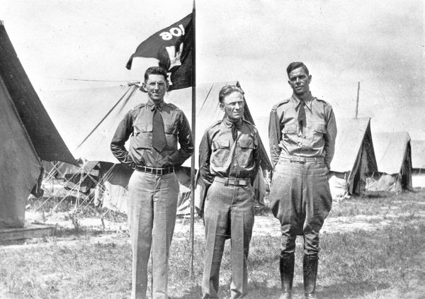 Appears to be officers of Company E, 106th Engineer Battalion, from Apalachicola, Florida. One of three men, possibly the man on the far right, is Herbert O. Marshall of St. George Island. Company was organized as Company E on Feb 3, 1927. Photo circa 1929.